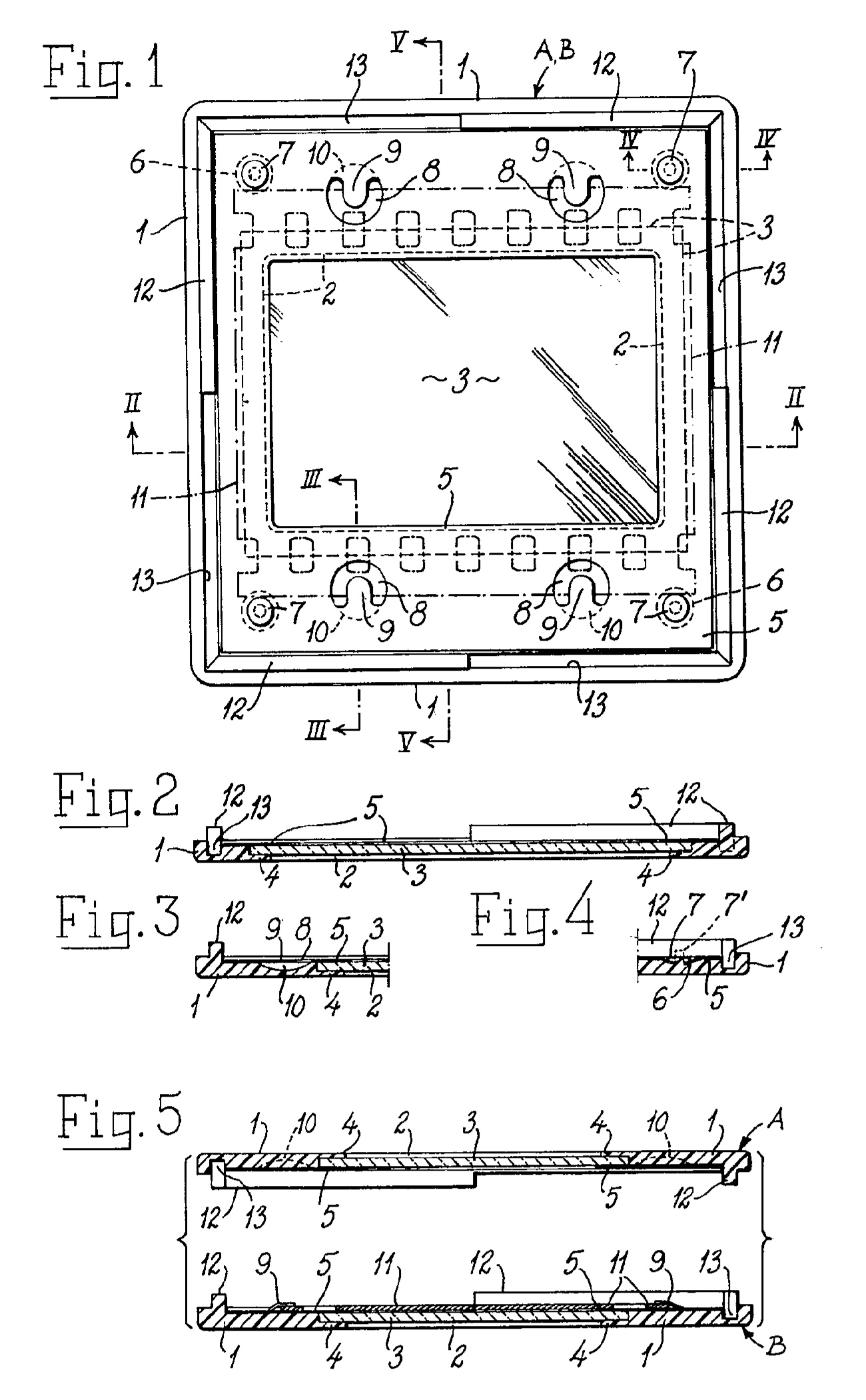 Illustration figures 1-5 from Swedish patent 200676: Monteringsram för diapositivfilmbilder. This is the Gepe "A" slide mount, designed to be injection-moulded.